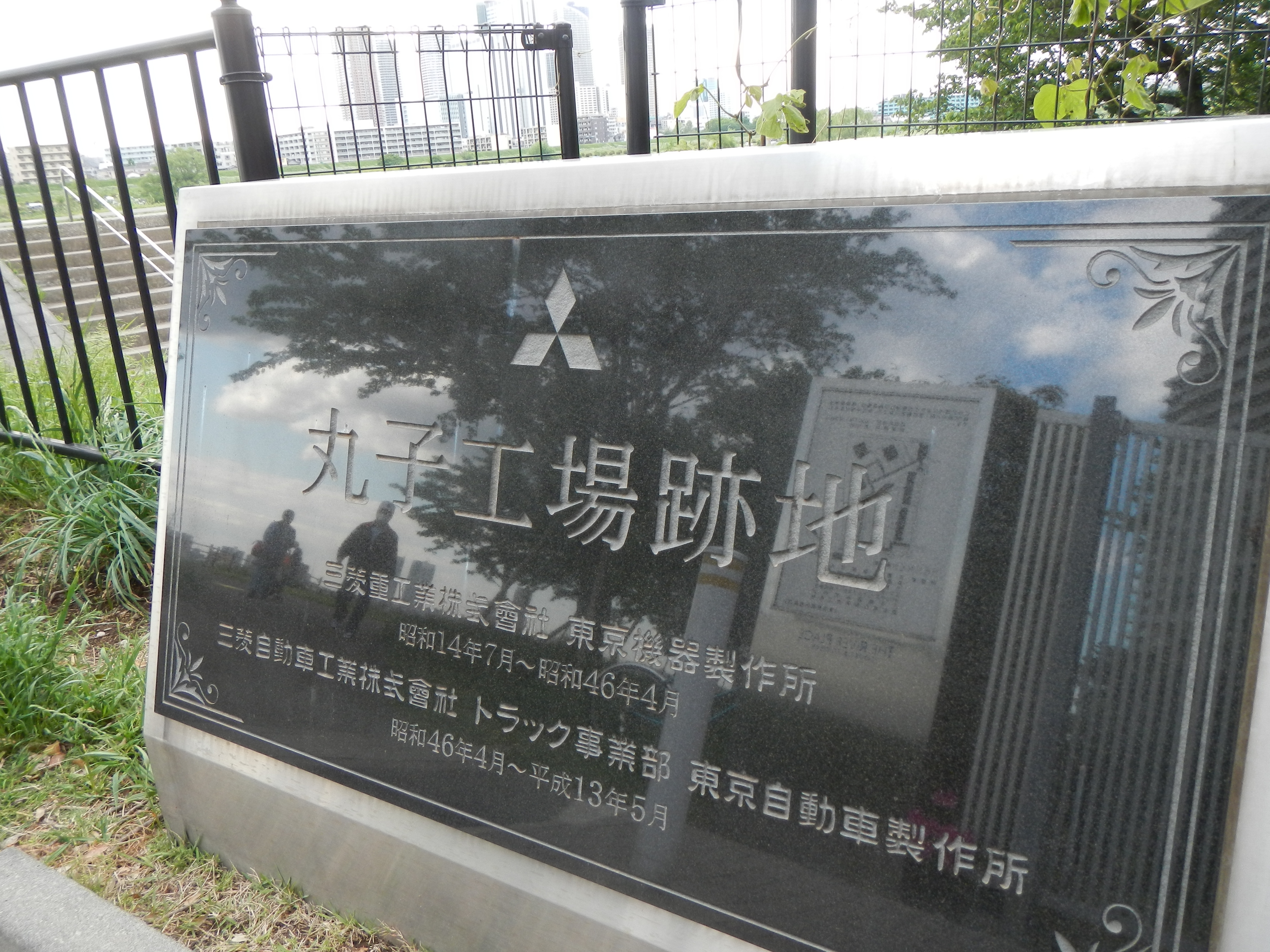 Monument of Maruko Factory, Mitsubishi Heavy Industries and Mitsubishi Motors